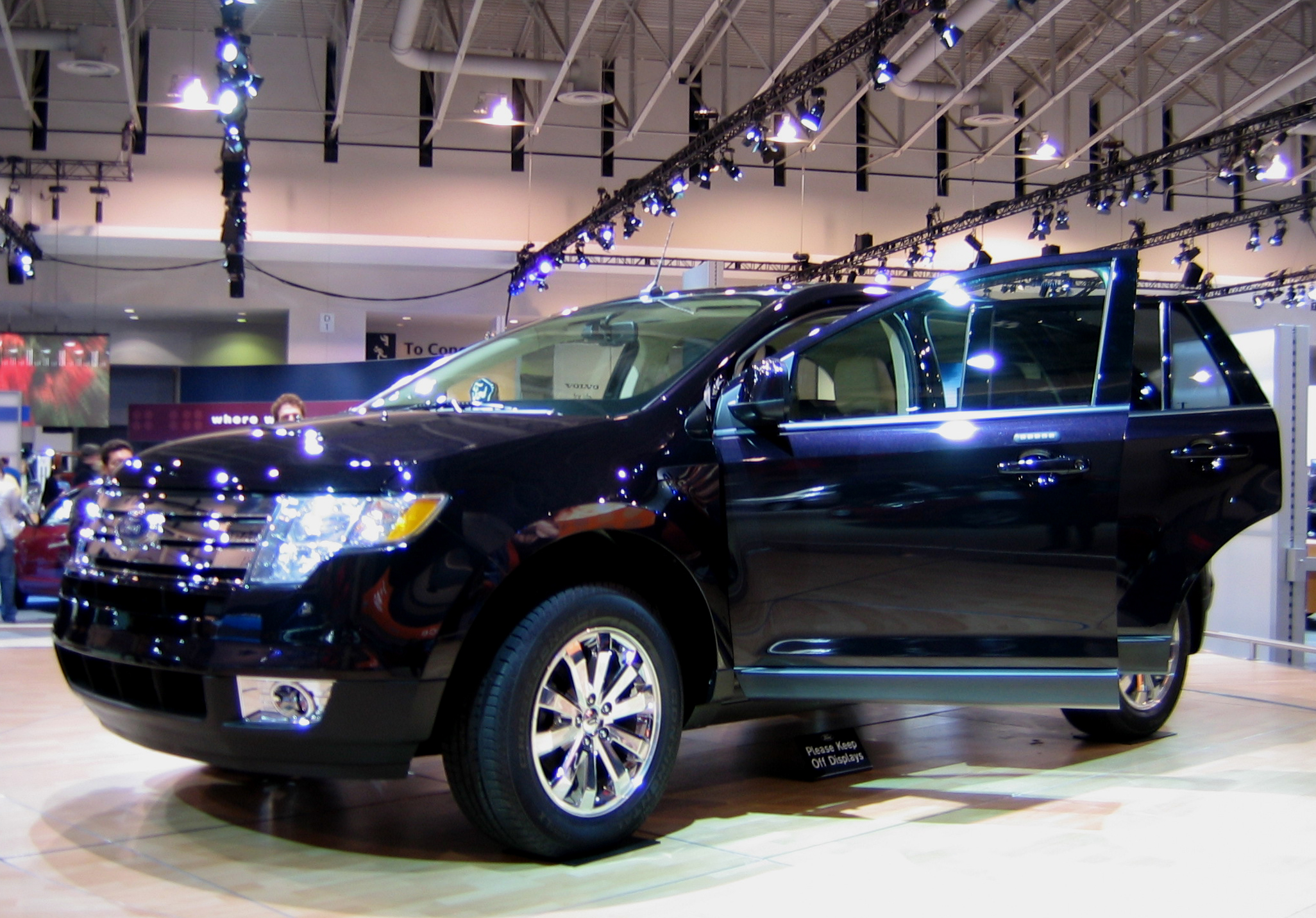 Ford Edge, a crossover SUV, to be introduced in the 2007 model year. Photo taken by Kmf164 on January 27, 2006 at the Washington Auto Show.